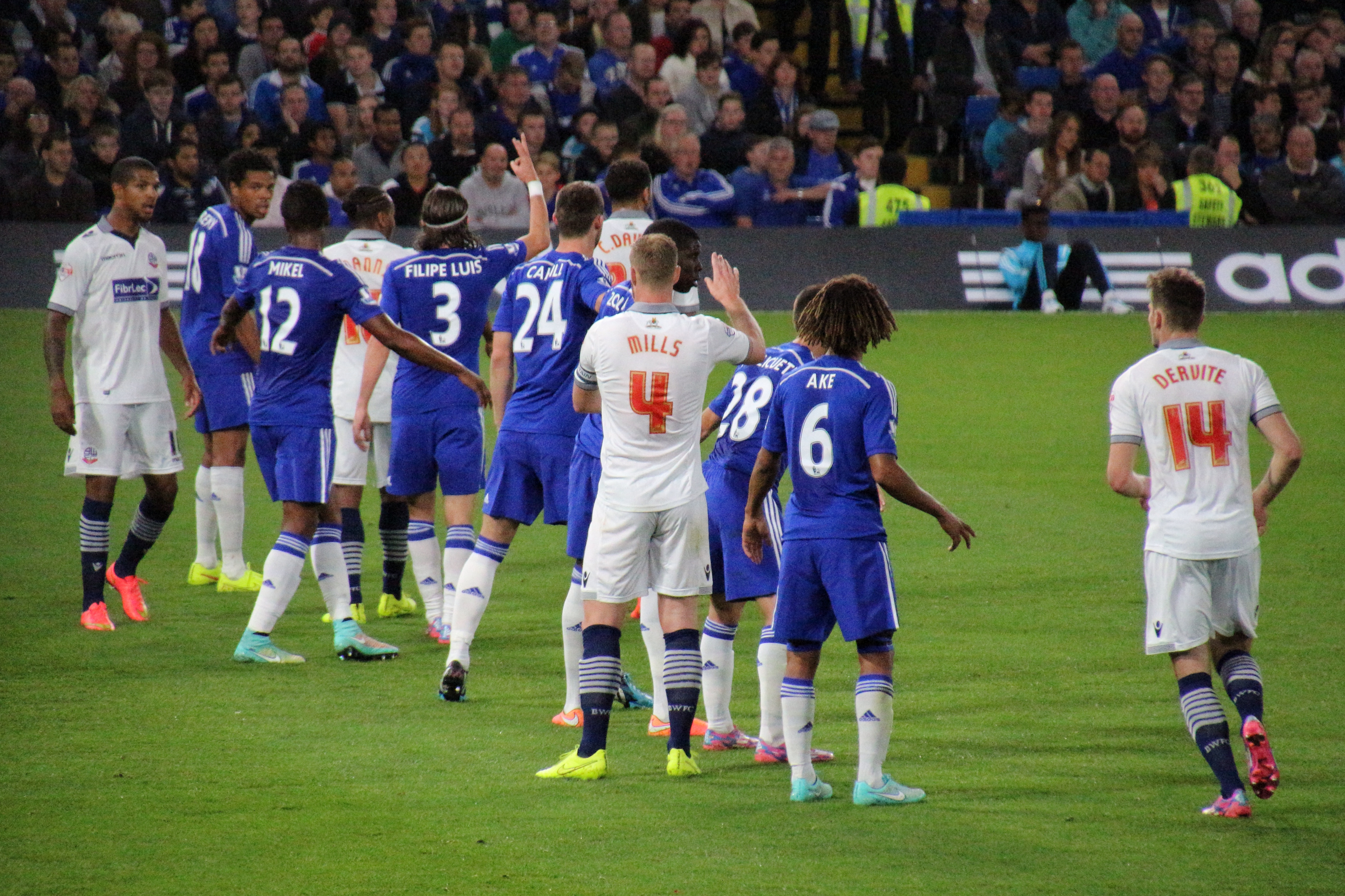 Chelsea 2 Bolton Wanderers 1 Chelsea progress to the next round of the Capital One cup